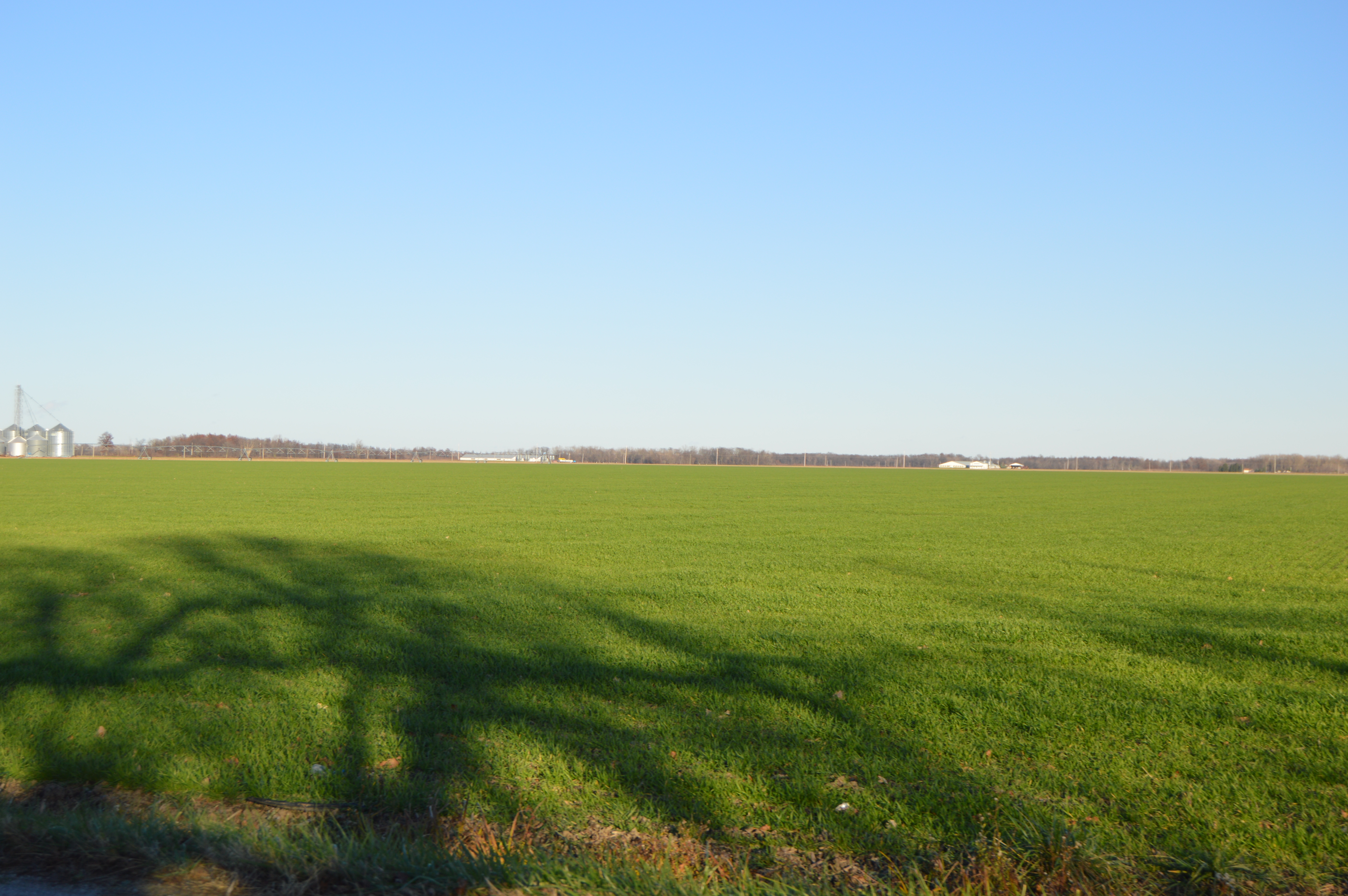 Looking northwest over young winter wheat fields from the intersection of Roads 40 and 177 in Washington Township, Paulding County, Ohio, United States.